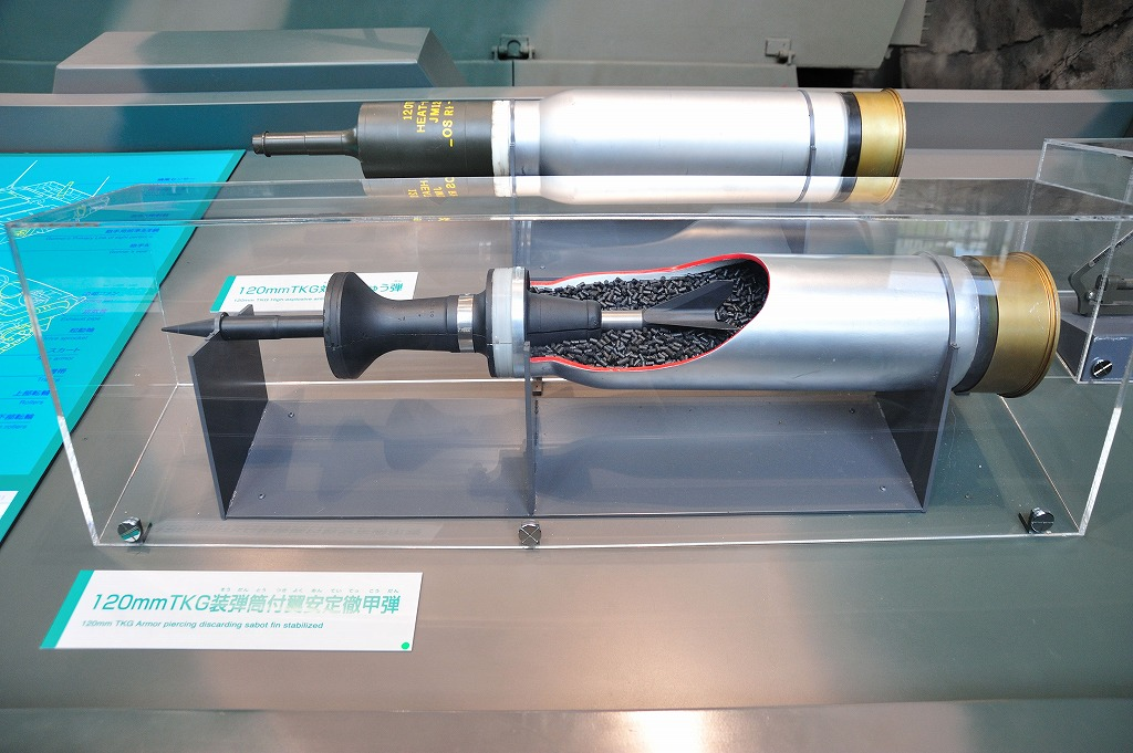 japanese type-90 tanks using APFSDS at Japan Ground Self-Defense Force Public Information Center Asaka Saitama Japan.